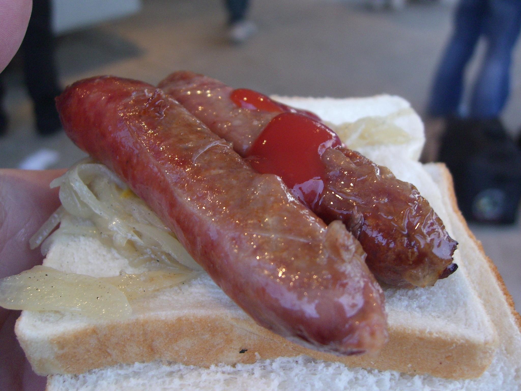 The Snowy Valley Resort put on a sausage sizzle for weary skiers pickup up their luggage on the way back to Sydney. Surprisingly, these sausages were better than the breakfast sausages!